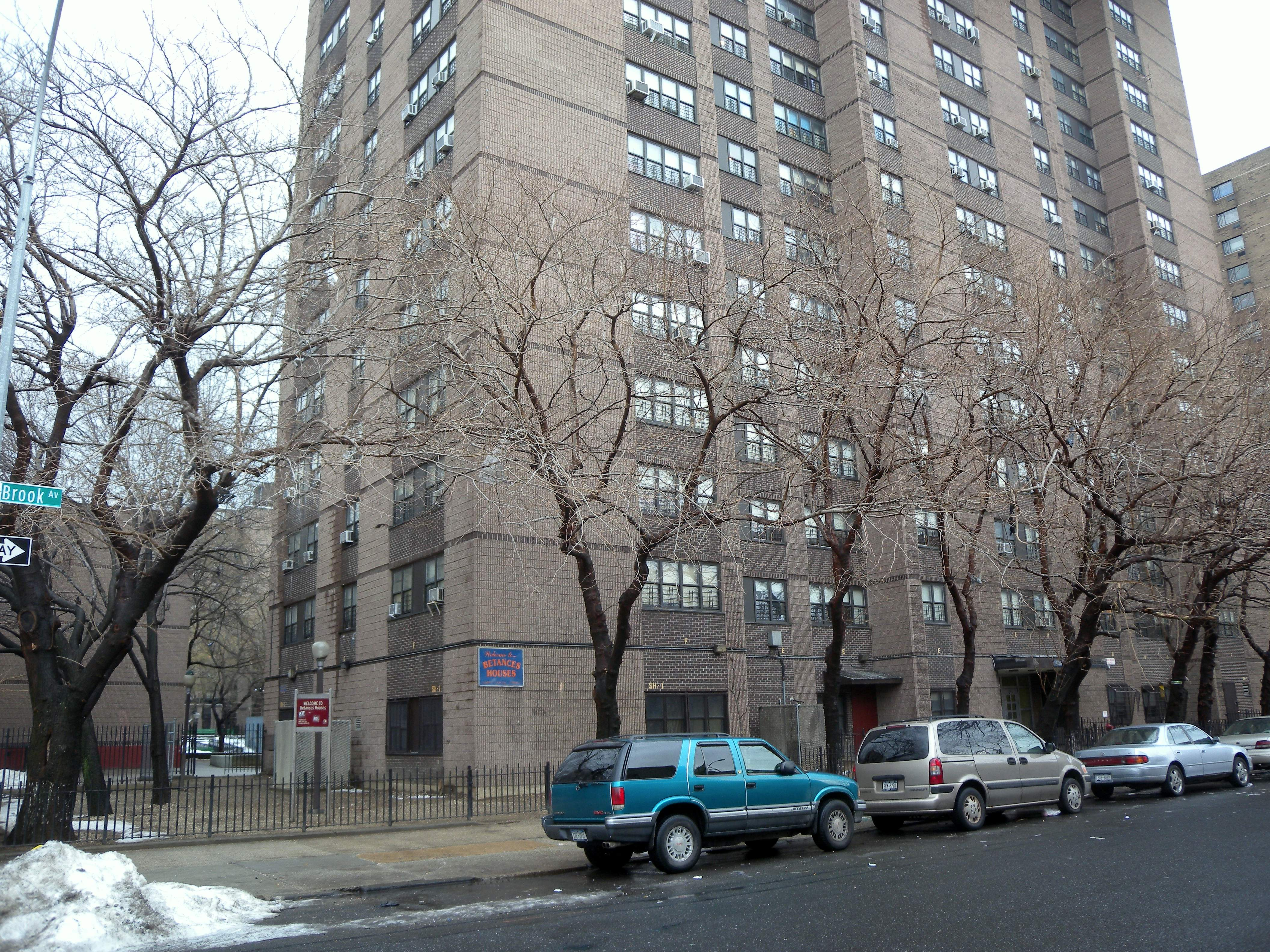 Looking southeast across Brook Avenue at Betances Houses on a rainy midday.